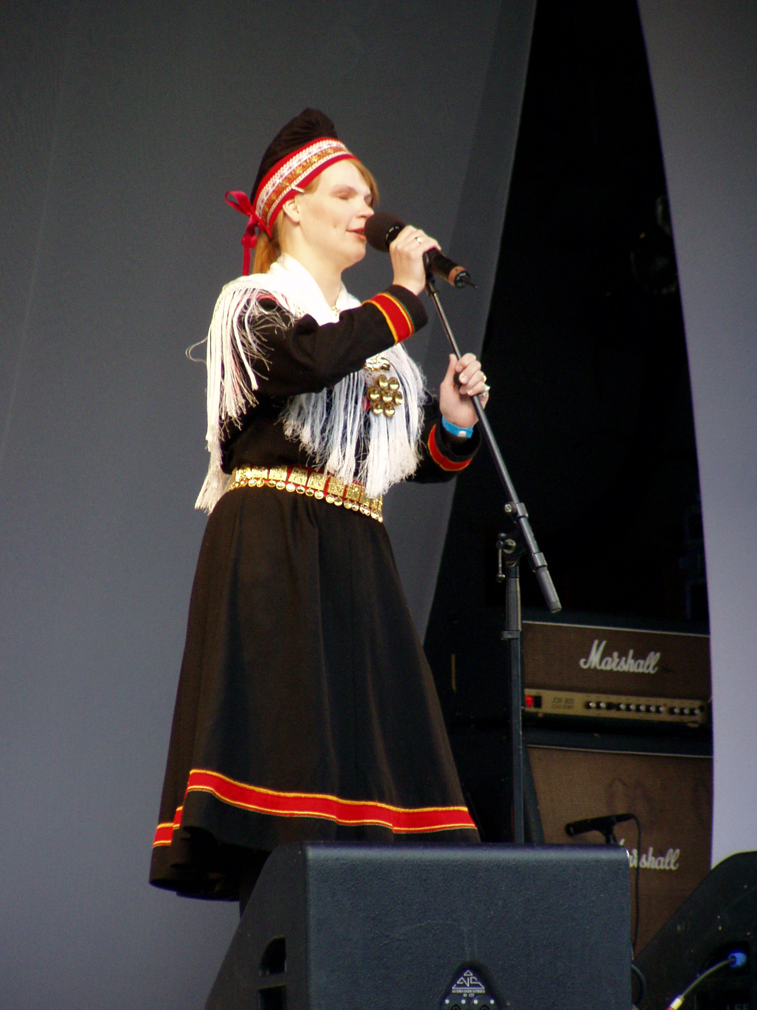 Festival of Riddu Riđđu of natural cultures in Norway, 2007